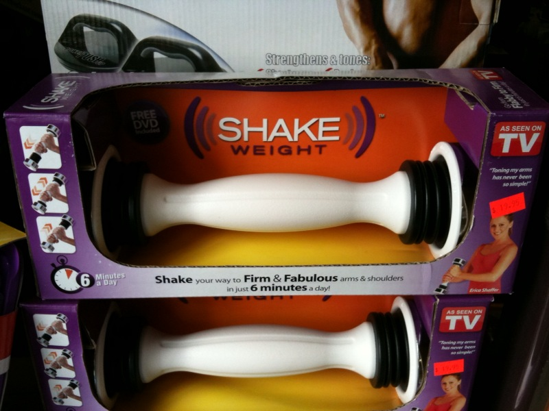 The Shake Weight product for sale in a store